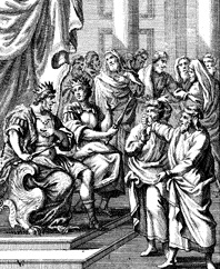 Woodcut of the biblical event